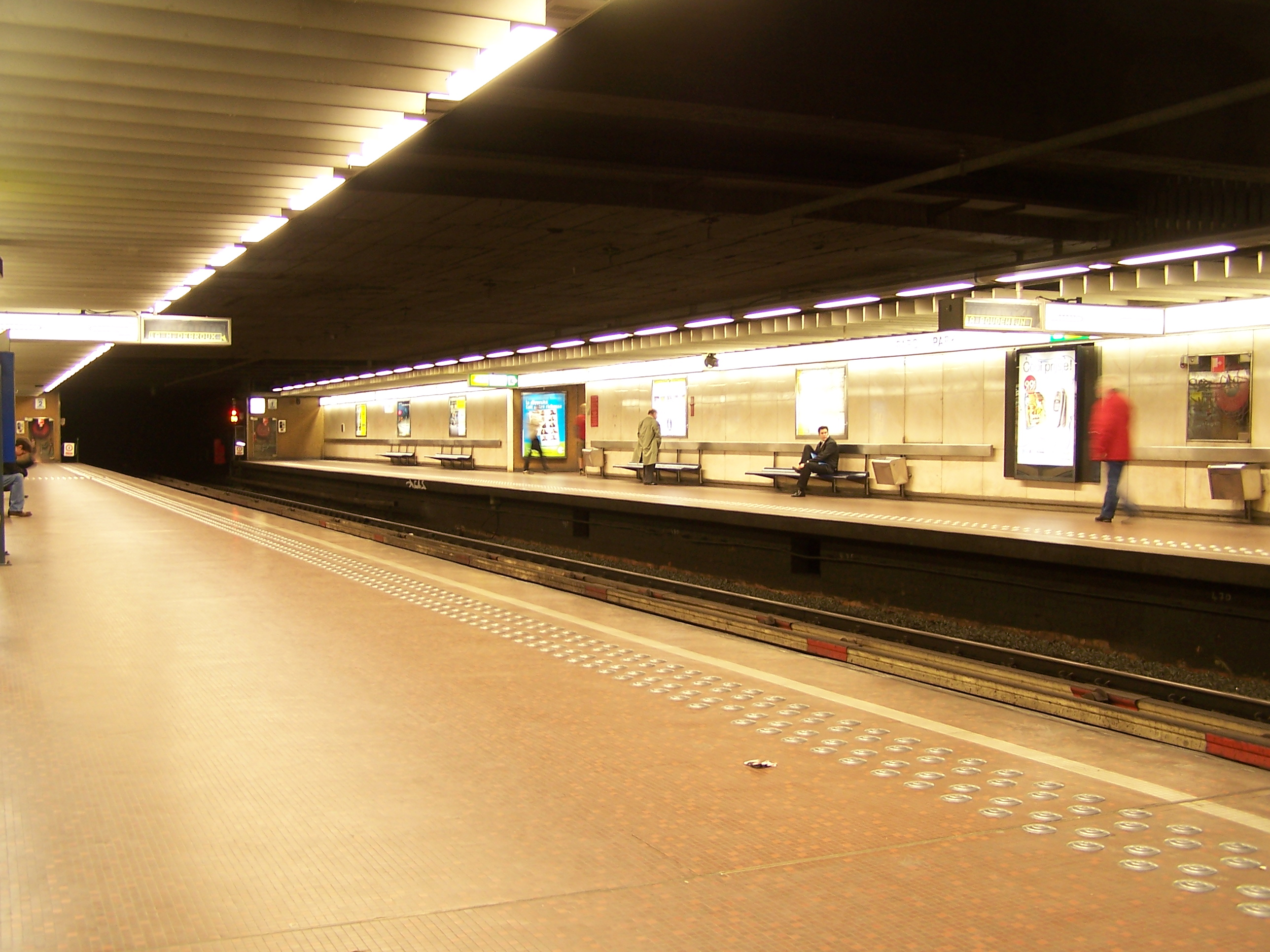 MIVB subwaystation Park